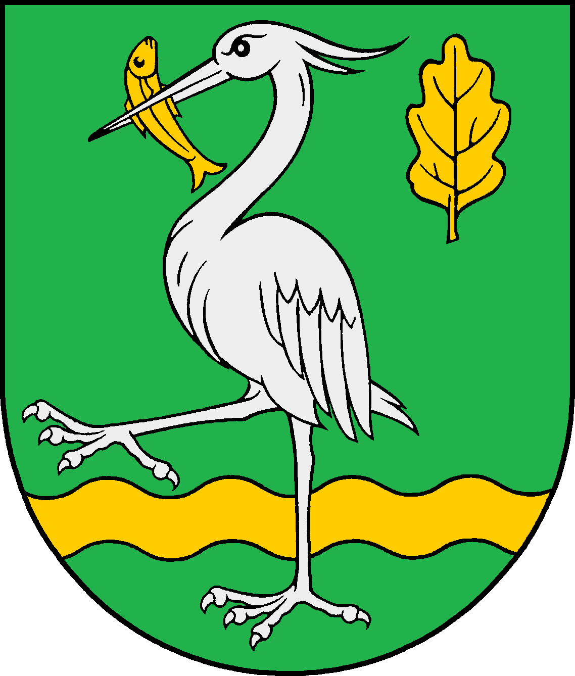 Coat of arms of the municipality Kölln-Reisiek in Schleswig-Holstein, Germany.